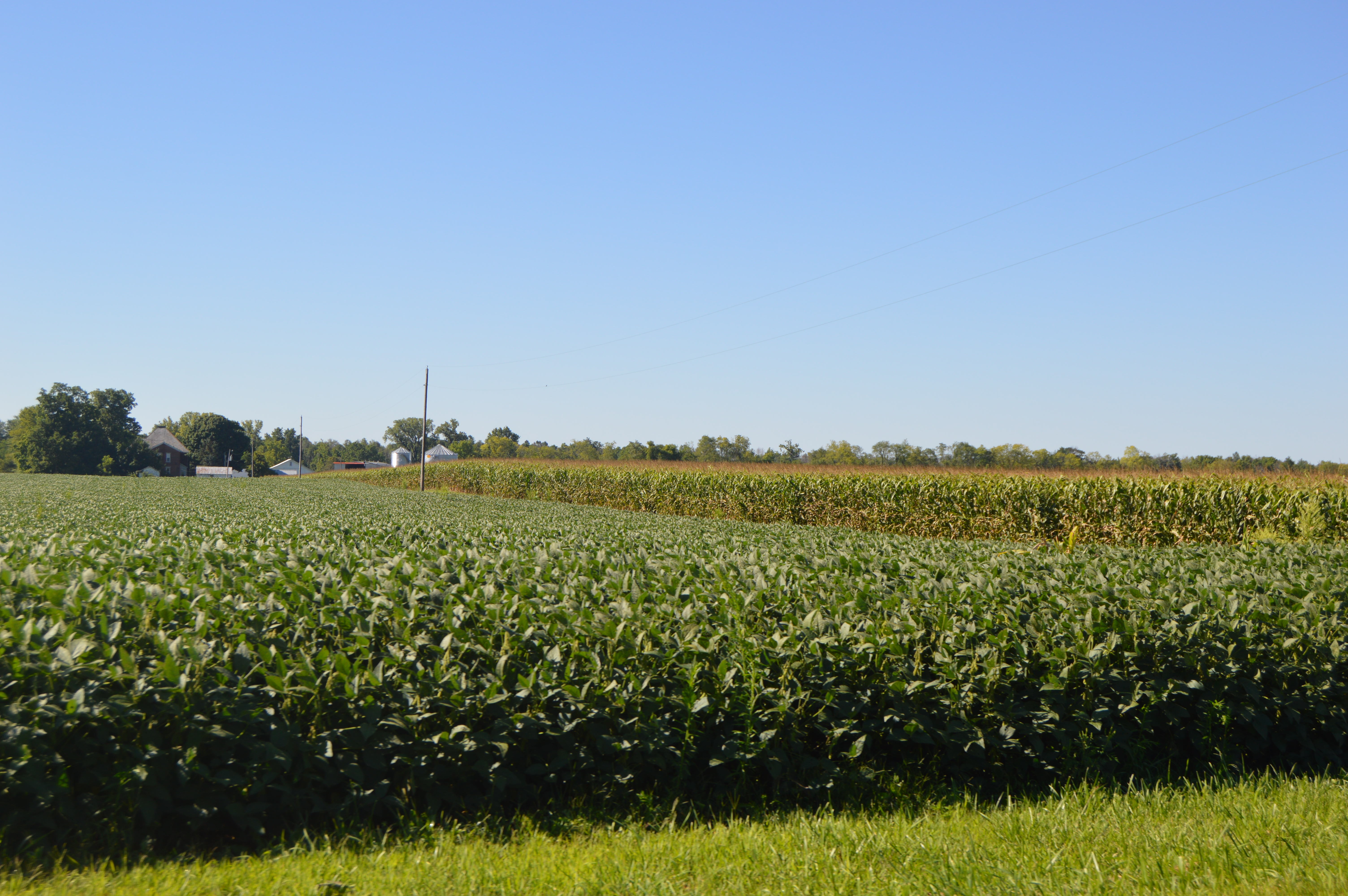 Soybean fields and cornfields on the southern side of Troy-Urbana Road just southwest of Miami East High School in Lostcreek Township, Miami County, Ohio, United States.